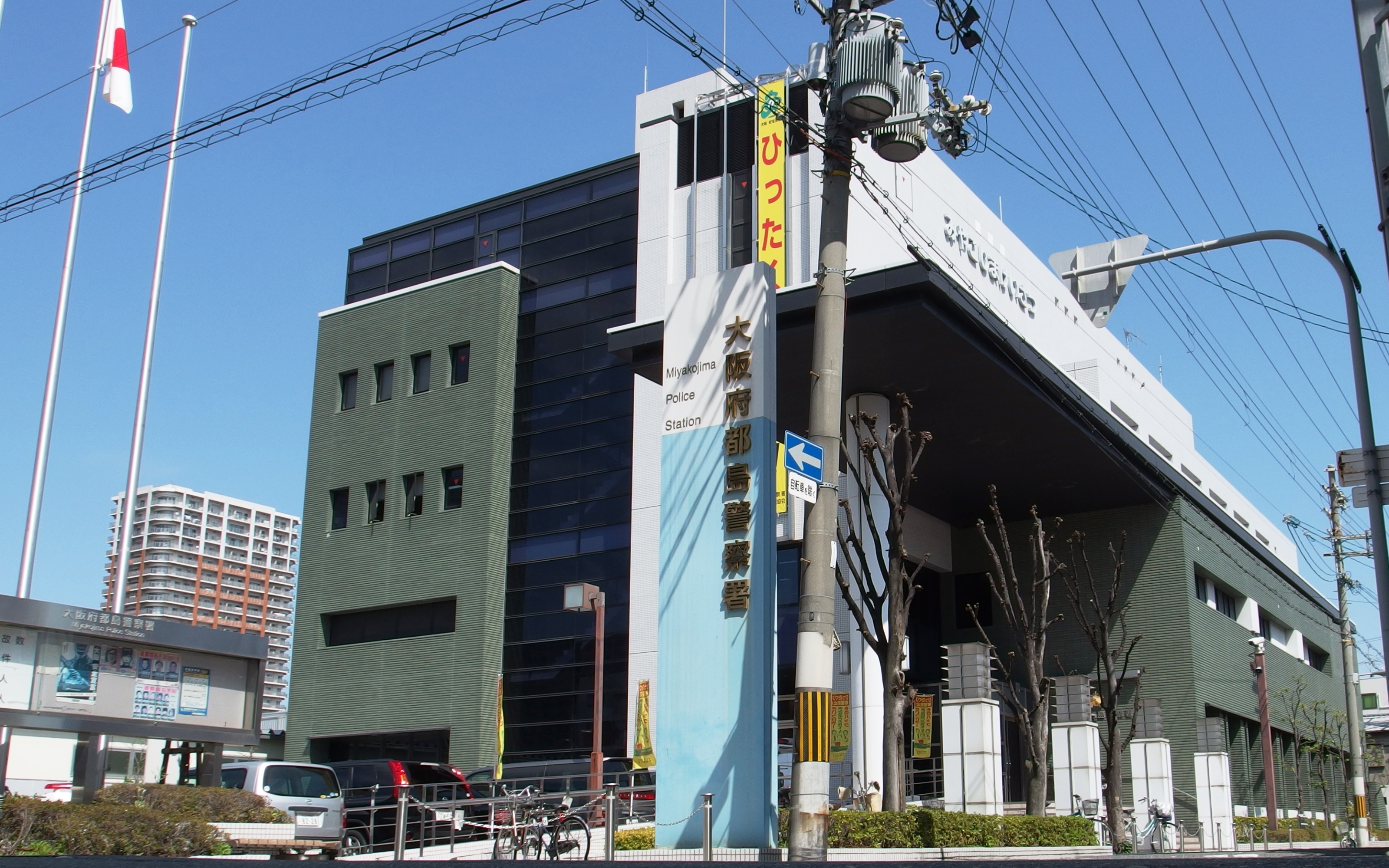 Miyakojima Police Station in Osaka, Osaka Prefecture, Japan